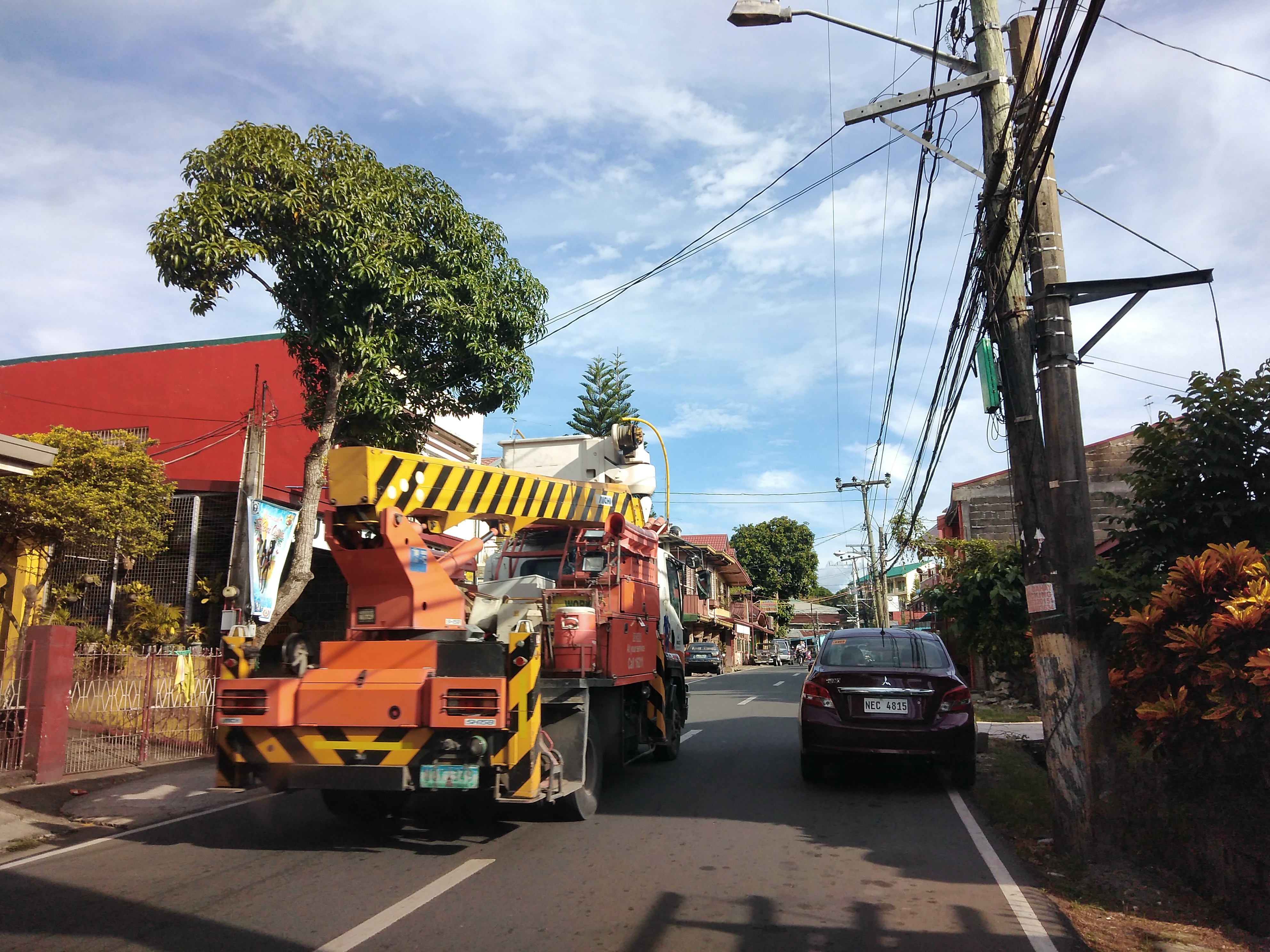 A segment of Noveleta–Naic–Tagaytay Road in Indang, Cavite.